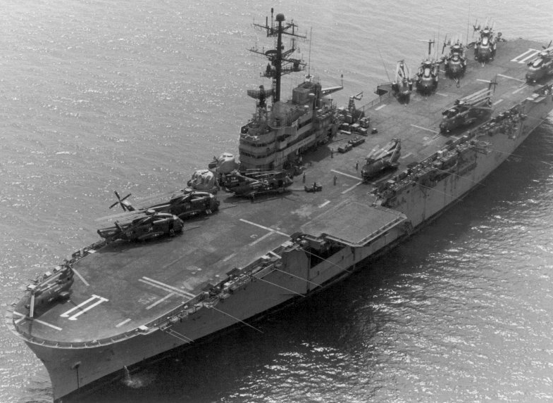 The U.S. Navy helicopter carrier USS New Orleans (LPH-11) with a mix of Navy RH-53A Sea Stallion and Marine CH-46 Sea Knight helicopters aboard, prepares to neutralize mines in Haiphong Harbour during Operation End Sweep, 28 March 1973.